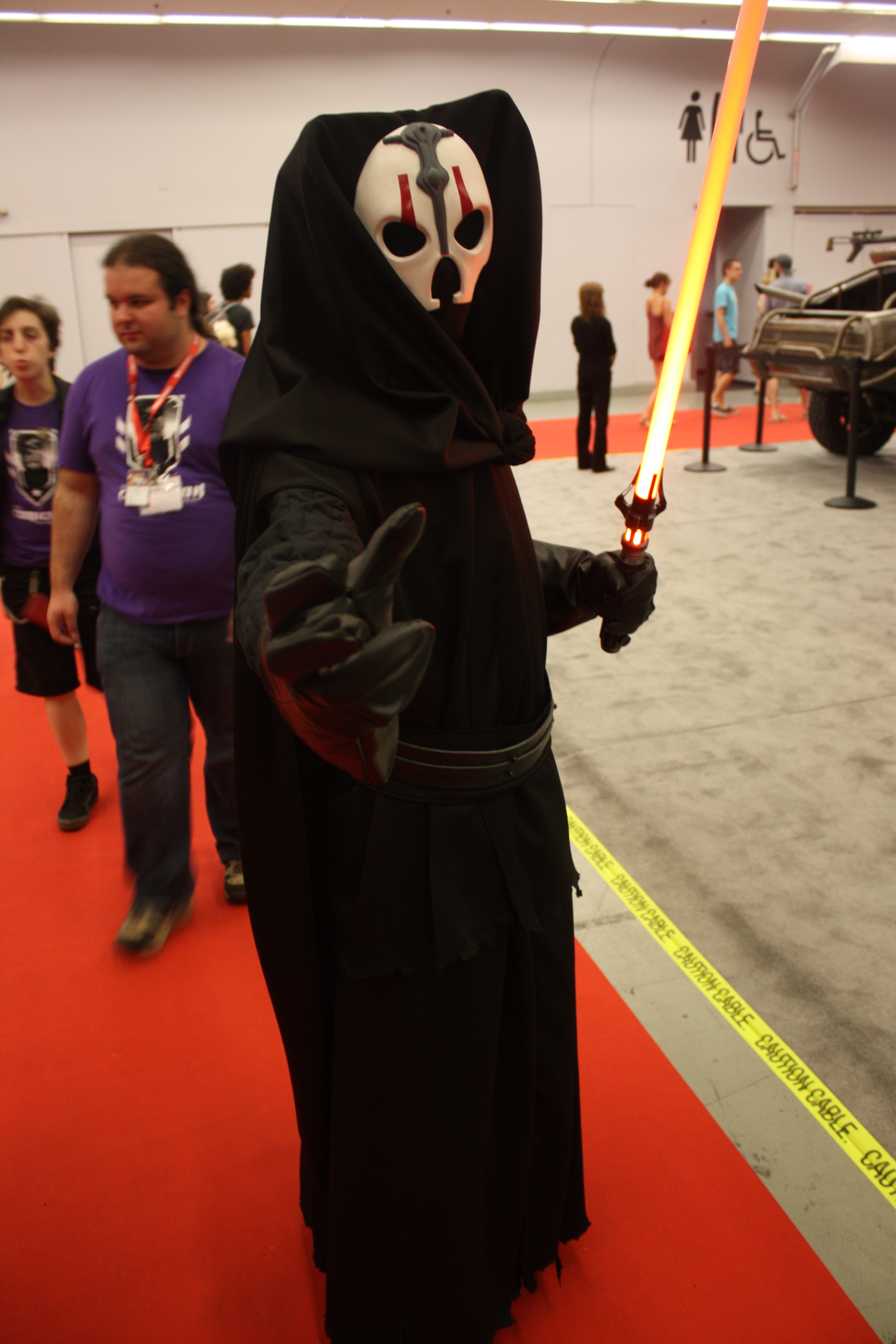 Cosplay on day three of Montreal Comiccon 2015.